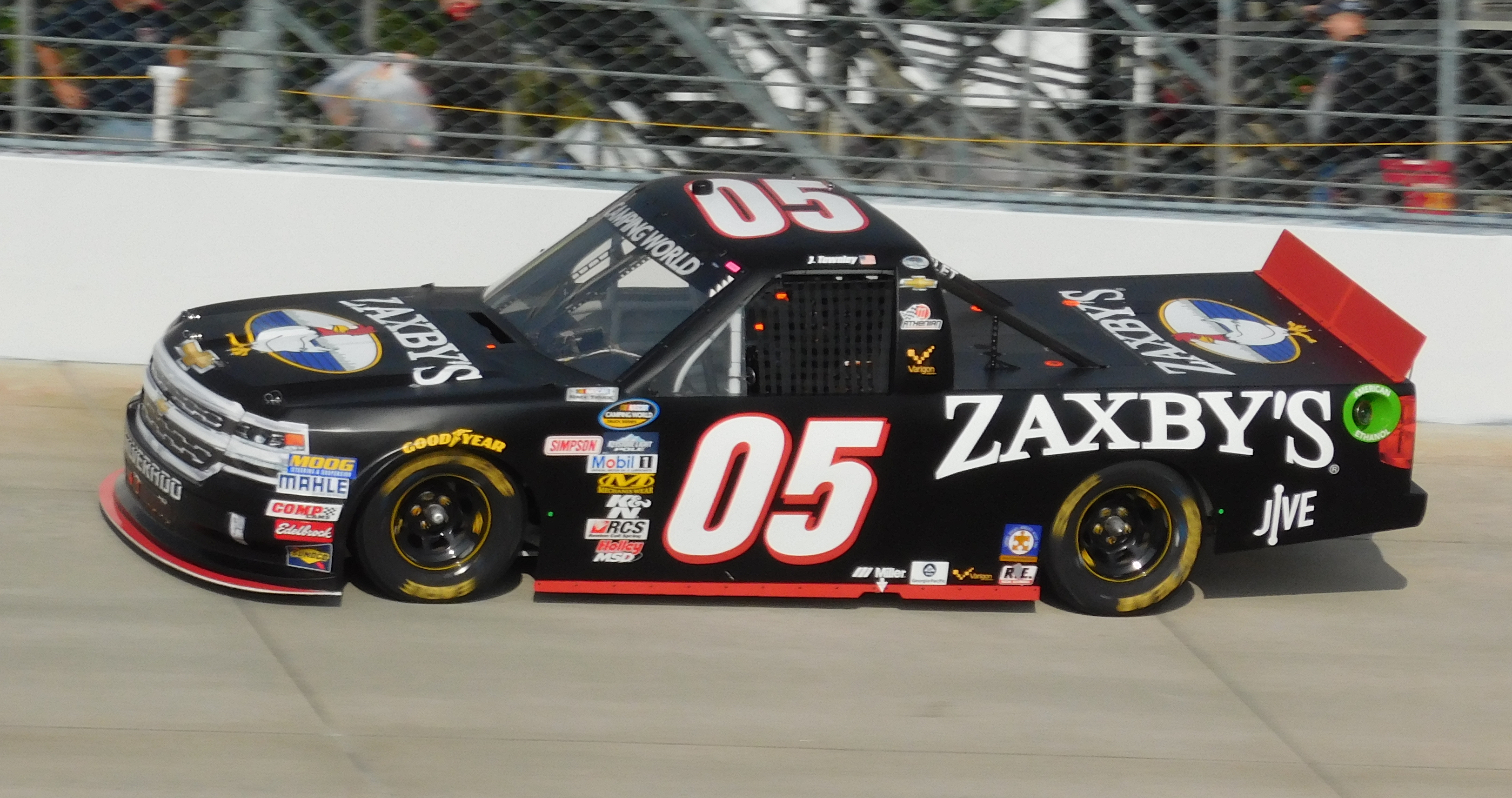 John Wes Townley's No. 05 Zaxby's Chevrolet at Dover International Speedway in 2016